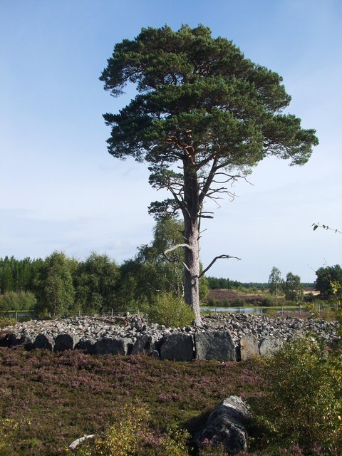 Granish Ring -Cairn, (Loch na Carraigean), near to Granish, Highland, Great Britain. This neolithic ring-cairn lies between the main railway line and the loch, a glimpse of which can be seen in the background. The internal diameter is 17.6 metres and it is ringed by large flat surfaced kerb stones as seen in the photo. Originally there was an outer ring of standing stones of which three fallen stones remain. A small burial chamber can be seen amidst the stones within the cairn. The large Scots Pine growing in the centre of the site adds to its character.